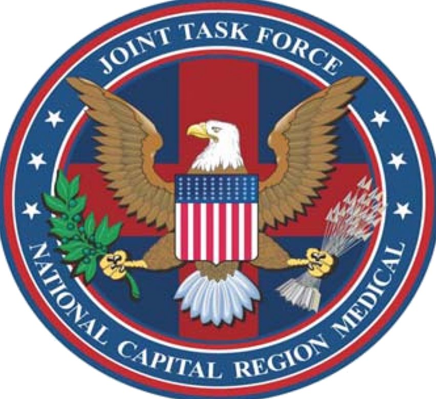 Seal of Joint Task Force National Capital Region Medical